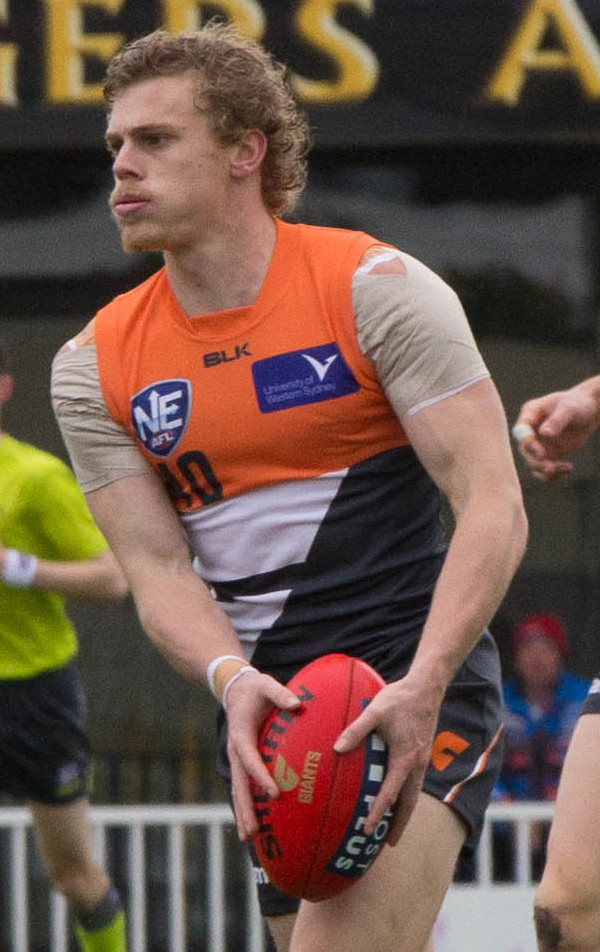 Adam Kennedy in action during the UWS Giants vs. Eastlake NEAFL match at Robertson Oval on 1 August 2015.